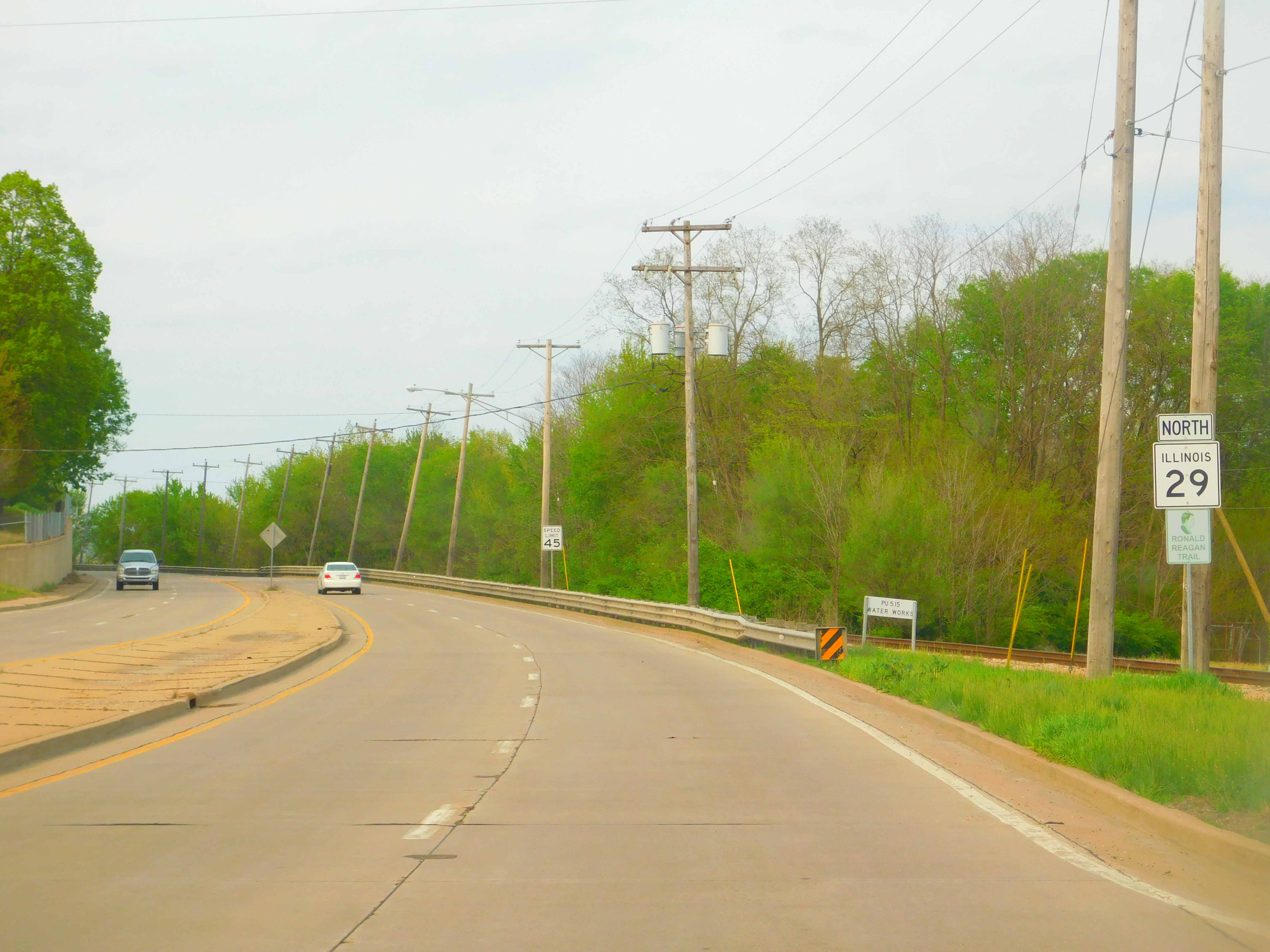 Illinois Route 29 (Galena Road) north of U.S. Route 150 (War Memorial Drive), Peoria, Illinois.